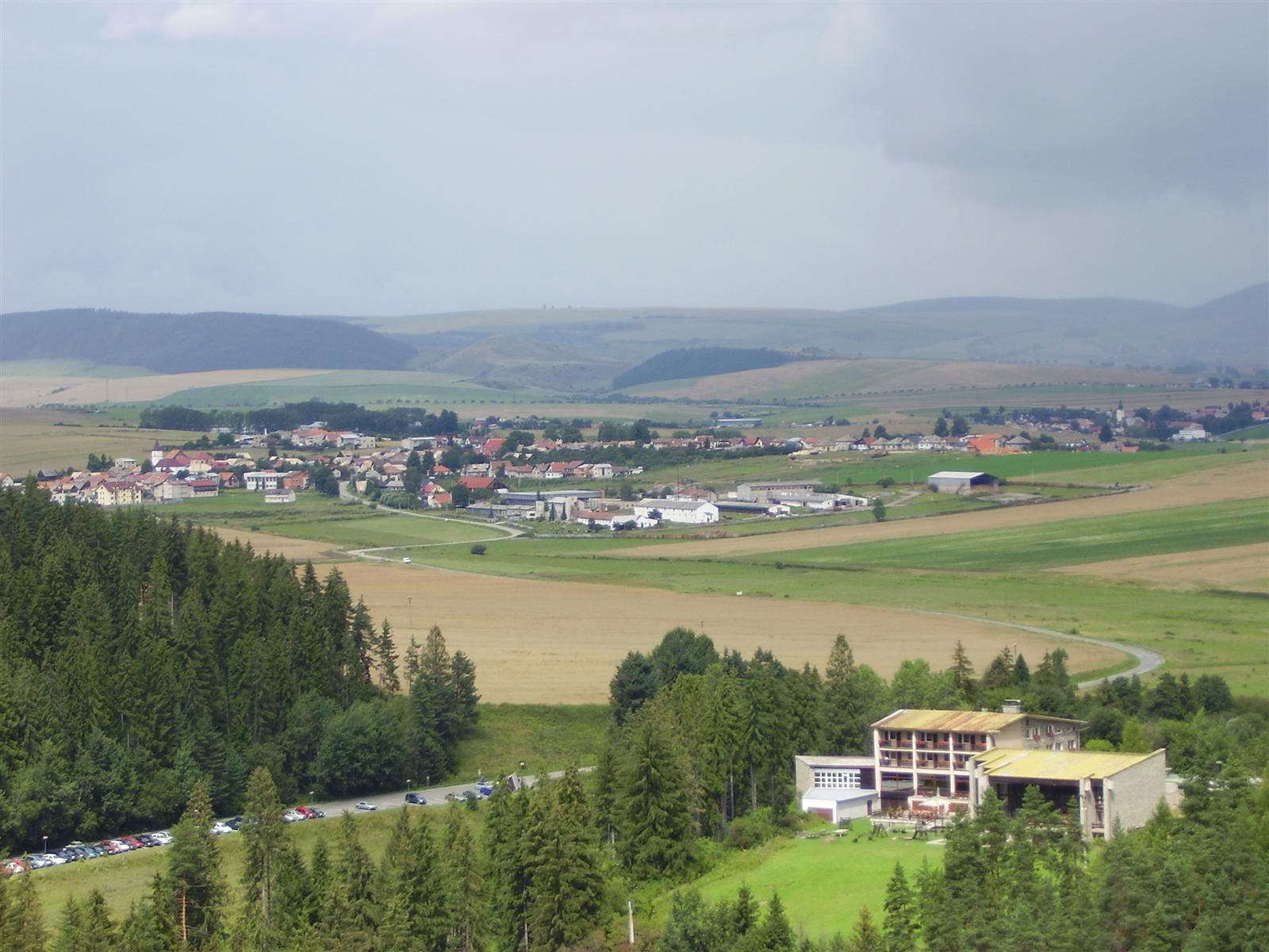 View from Sovia skala at Spišské Tomašovce